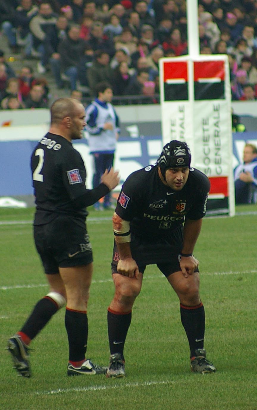 Pictures from the rugby game Stade Français vs Stade toulousain which took place in Stade de France, Paris, 27/01/2007. Yannick Bru and Omar Hasan (internationals player of France and Argentina)